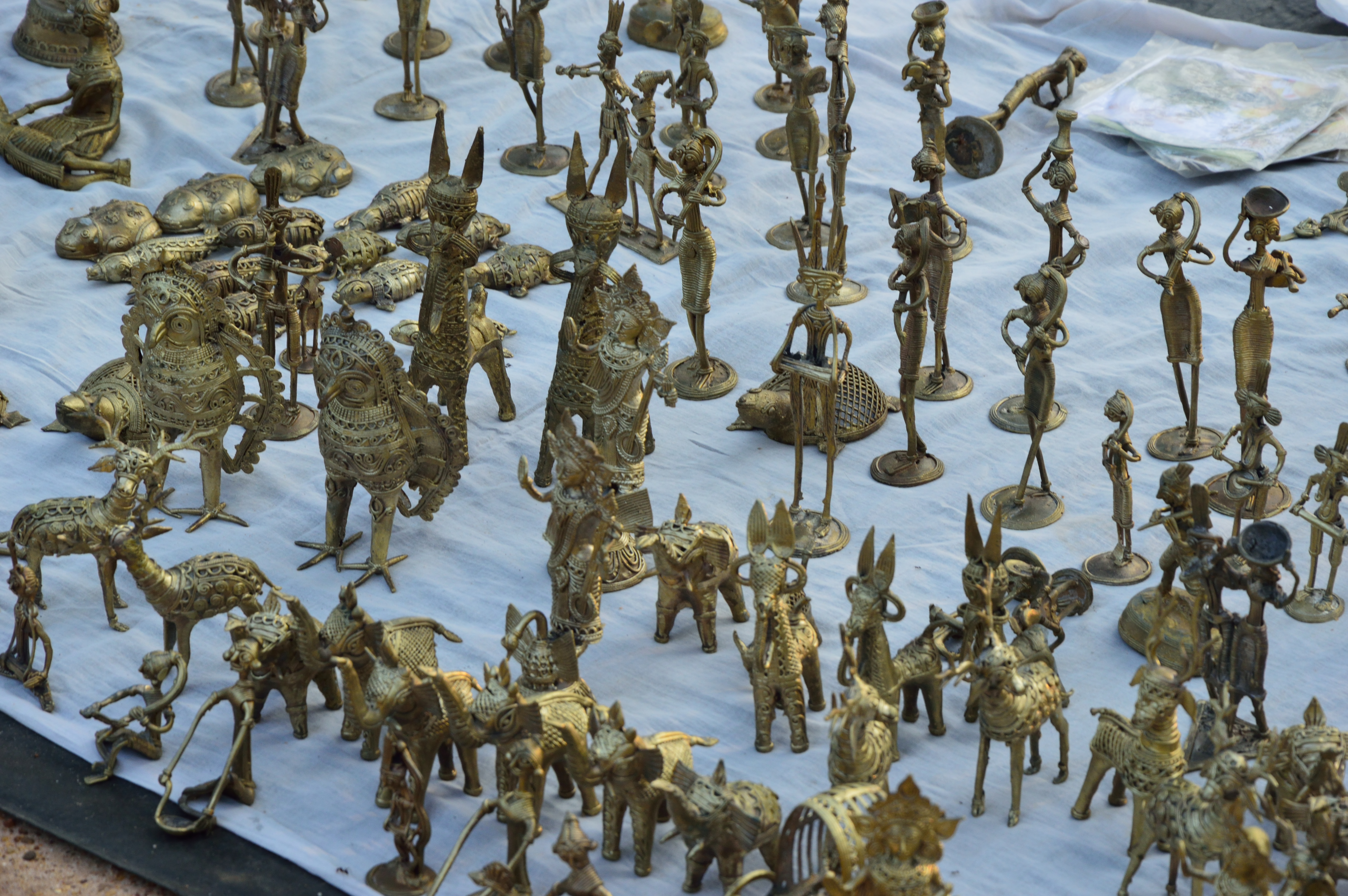 Photographed at the Sonajhuri-Khoai area. It is very near from Santiniketan and Prantik railway station, Birbhum. In every Saturday Haat ( bn: Sanibarer Haat) happen mainly with village people made ethnic decorative ornaments, house-hold materials and home-made sweets & snacks. The Baul songs are also performed by various Baul groups. The buyers are mainly come from Kolkata or other parts from West Bengal.